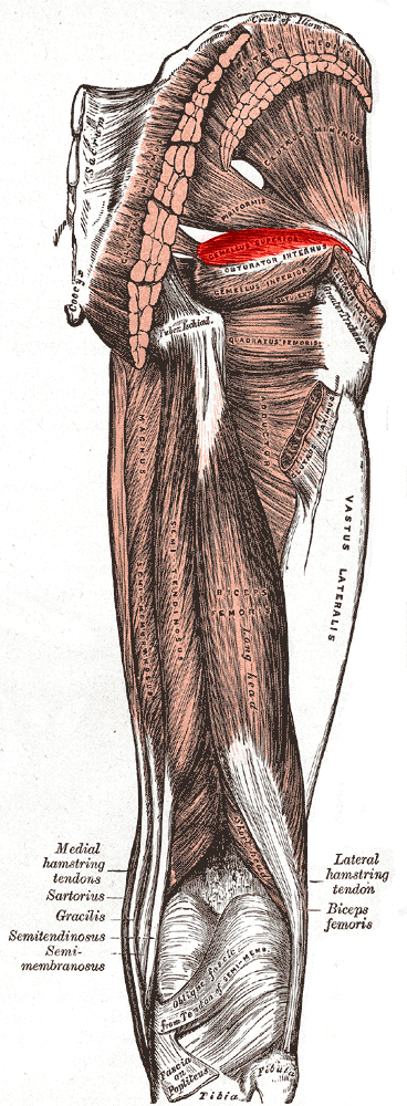 Muscles of the gluteal and posterior femoral regions with current muscle highlighted